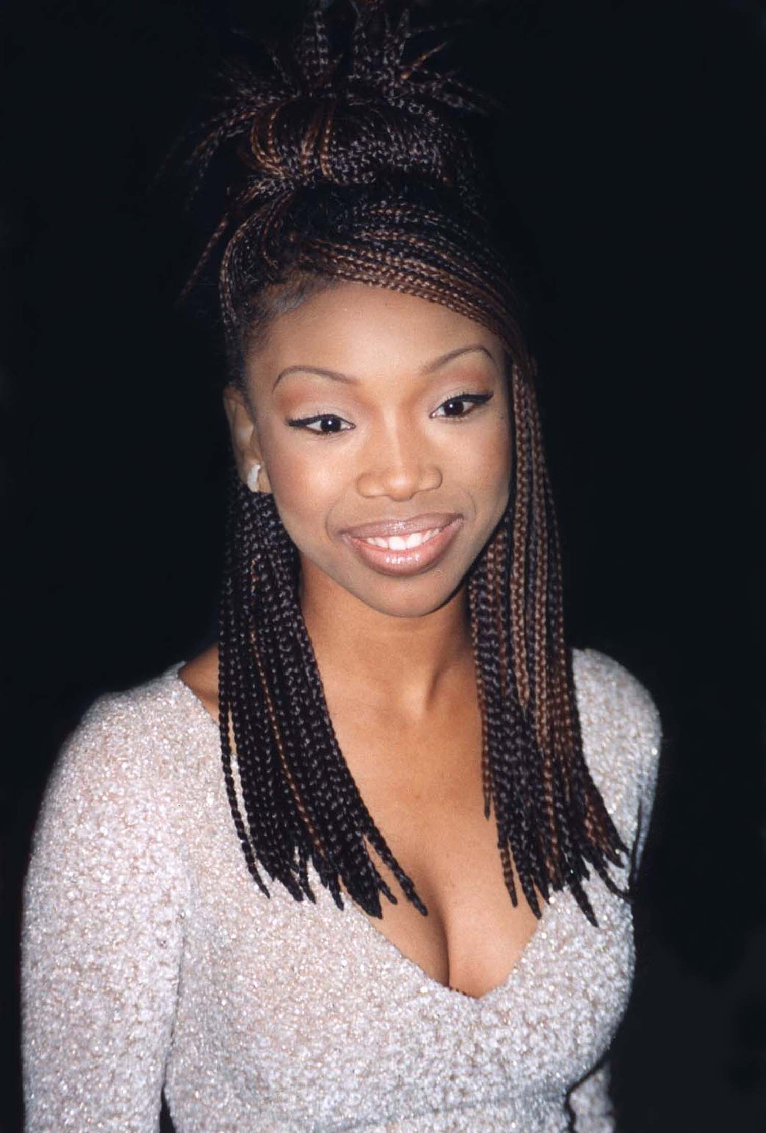 From New York City Essence awards April 4, 1997 © copyright John Mathew Smith 1997